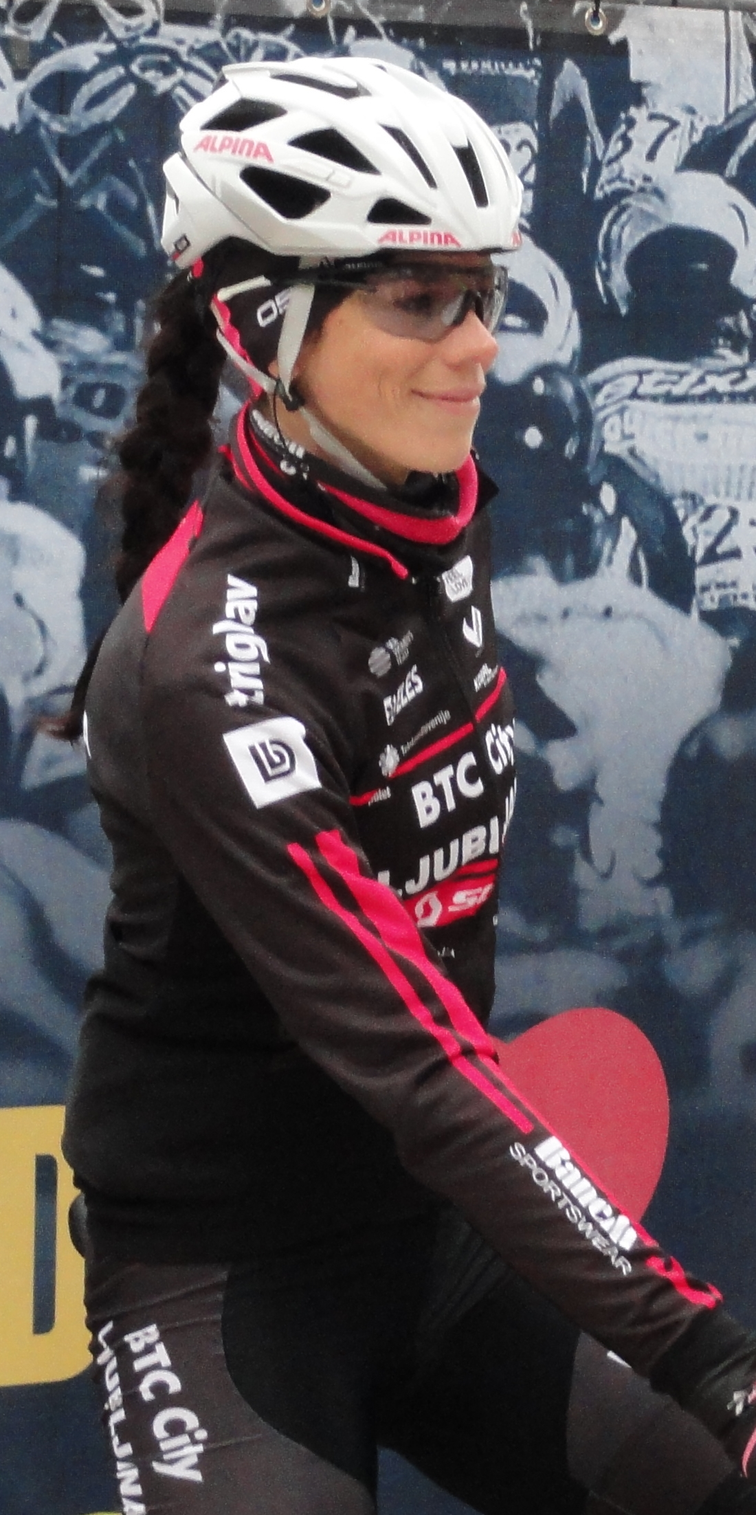 Eugenia Bujak at the start of RVV2018.